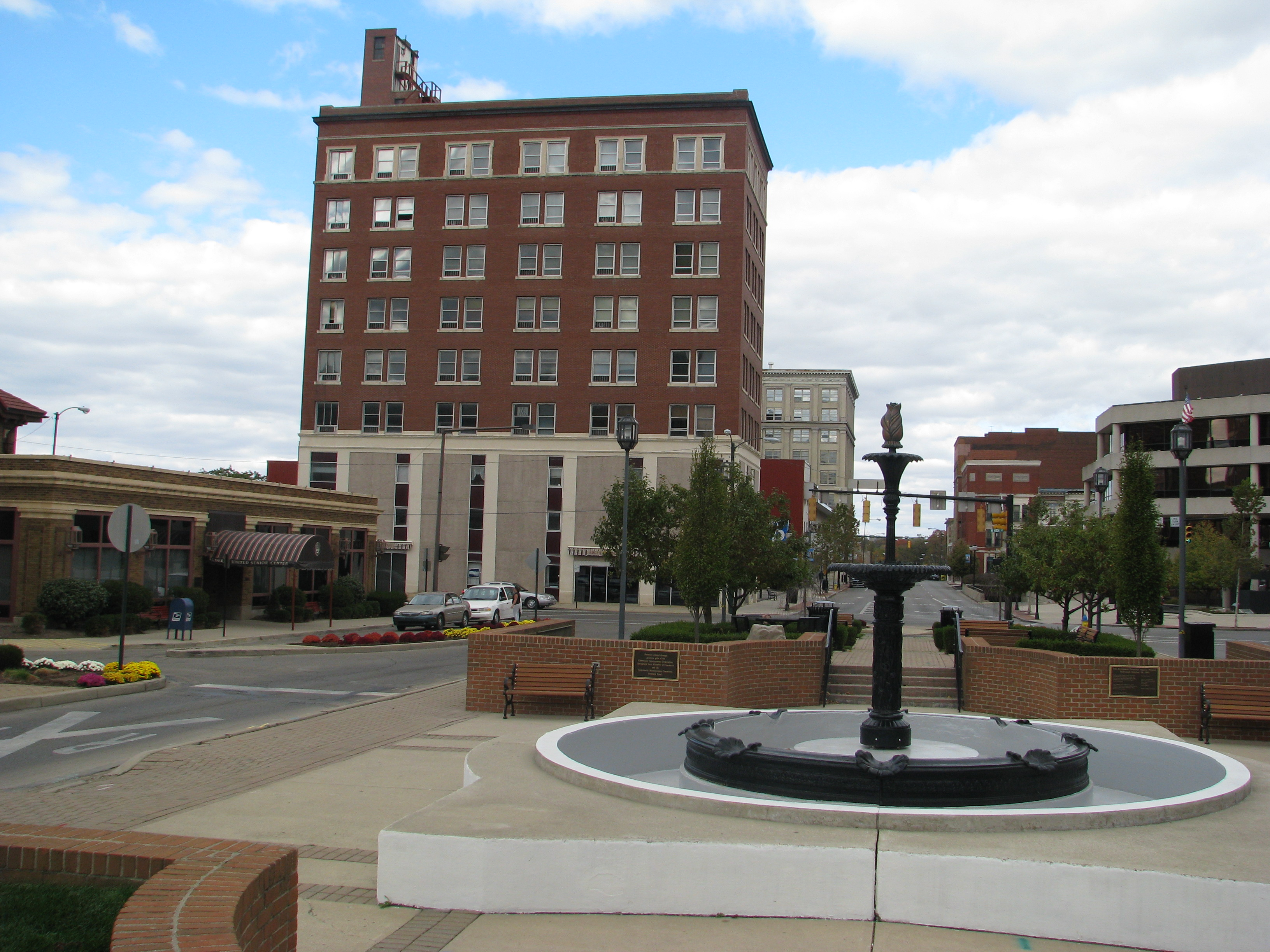 Fountain Square, Springfield, Ohio, United States.